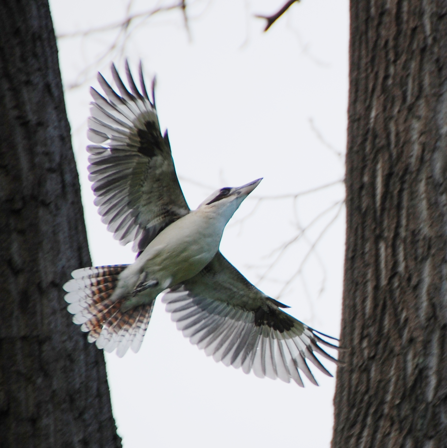 Airbourne Laughing Kookaburra (Dacelo novaeguineae) at Alexandria Park, Alexandria, Sydney.